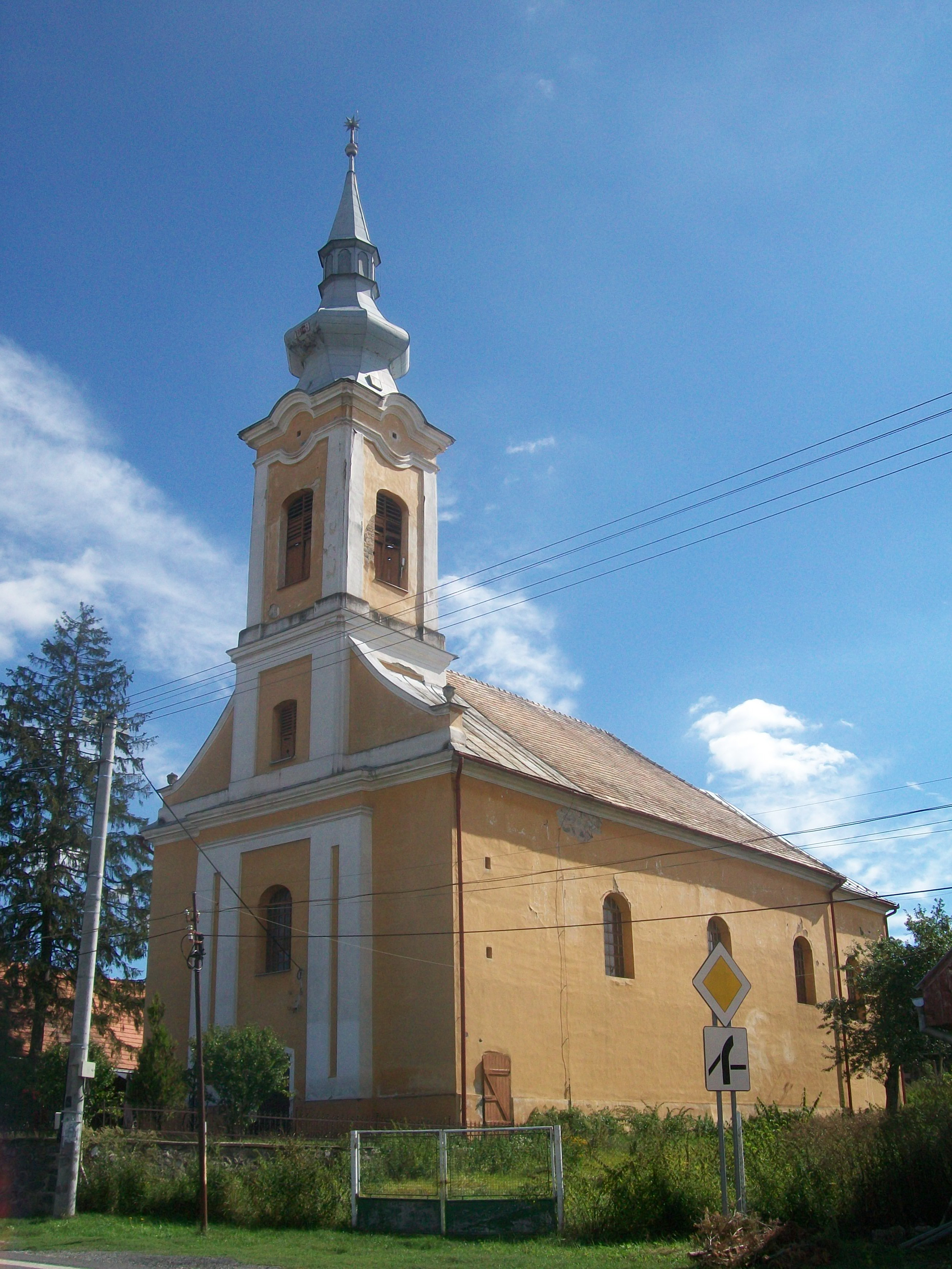 Classical Lutheran Church from 1825, OžďanySlovenčina: Kostol evanjelický klasicistický z roku 1825, Ožďany Object location48° 22′ 38.06″ N, 19° 53′ 49.52″ E